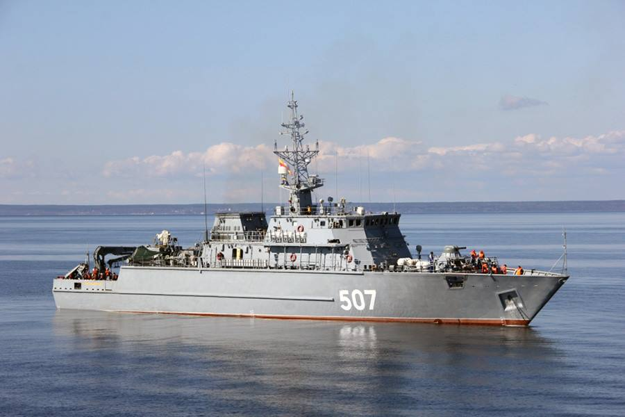 Aleksandr Obukhov.